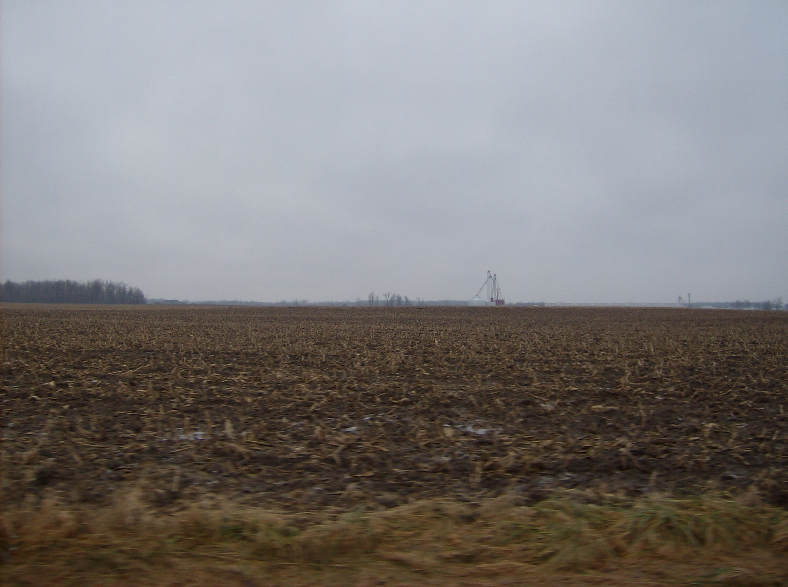 Farmland in western Gibson Township, Mercer County, Ohio, United States. Picture taken westward from State Route 49.